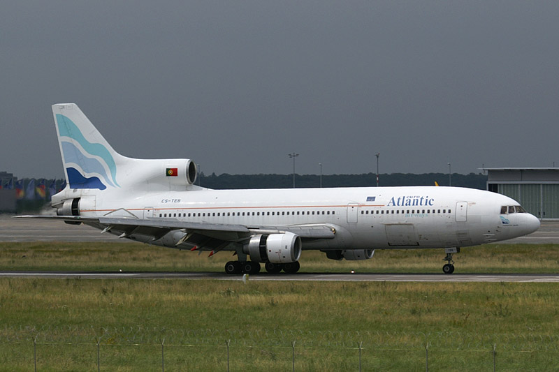 Lockheed L-1011-500 TriStar CS-TEB. Euro Atlantic Airways. Stuttgart (STR/EDDS) (1722) 48.69° N 9.21° O